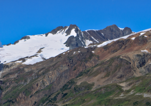 Mount White-Fraser from Salmon Glacier viewpoint